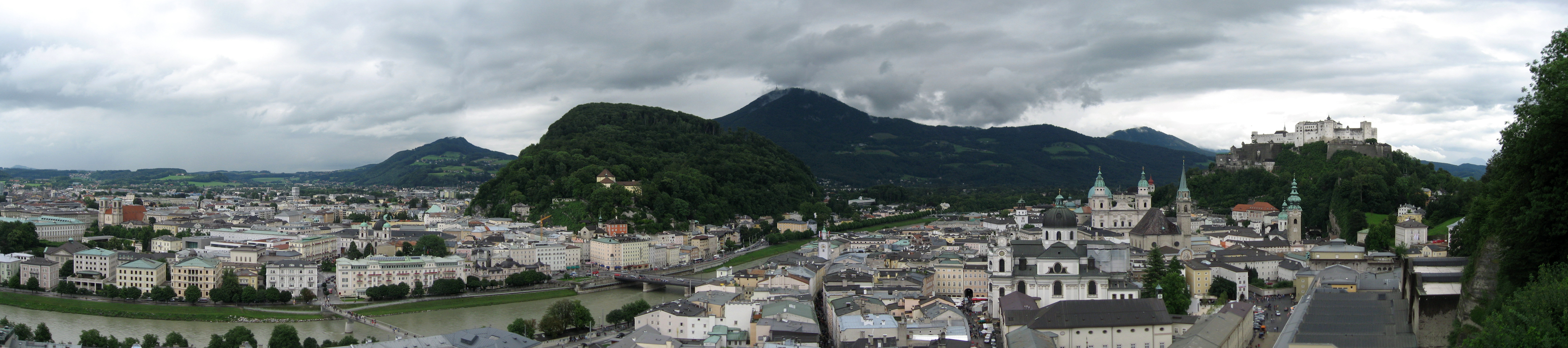 View over the old town in SE Salzburg, taken from the Moenchsberg